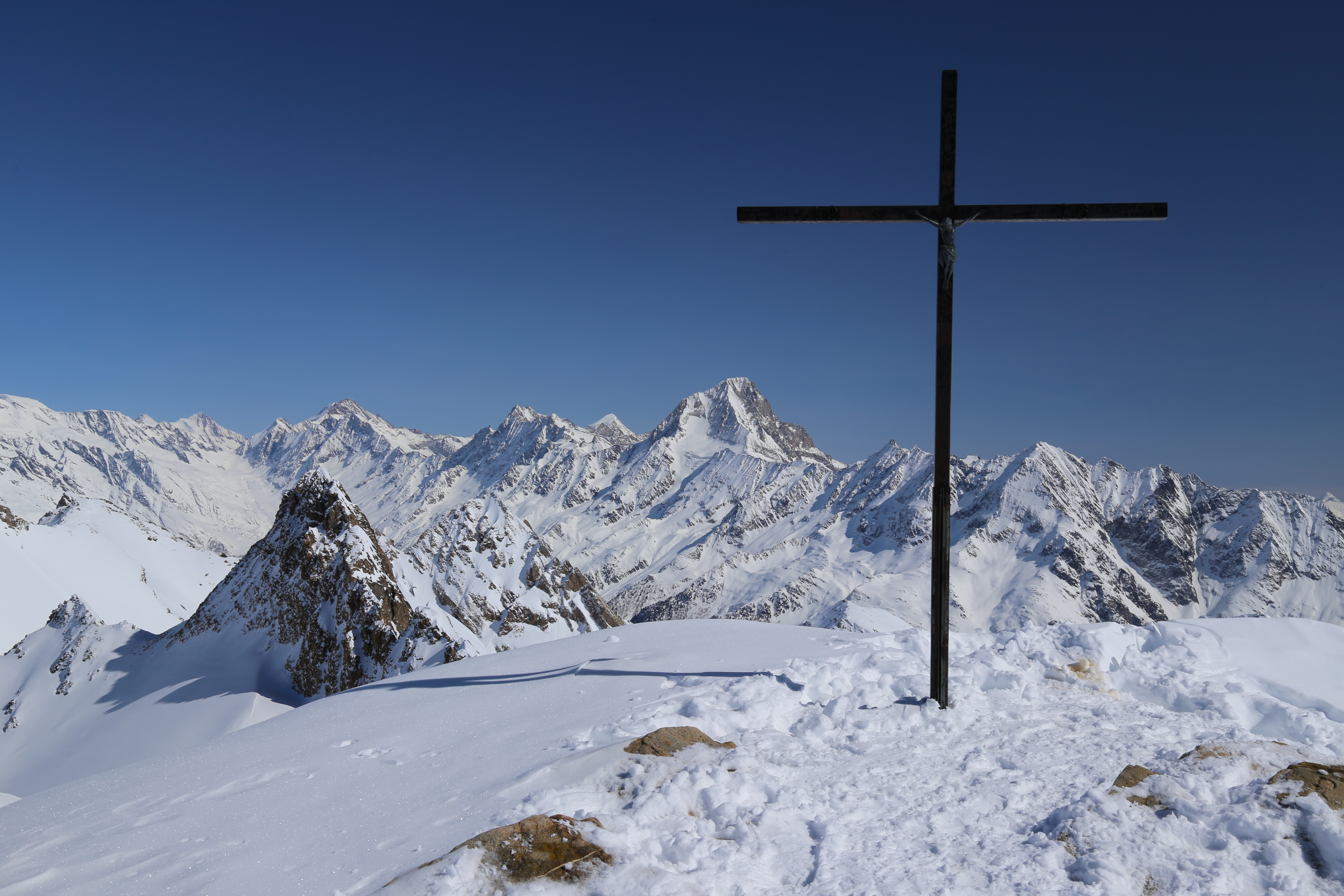 View east over the Lötschental, Bietschhorn and Aletschhorn from the summit of the Torrenthorn in the Bernese Alps